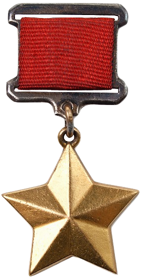 Red Star medal for Hero of the Soviet Union